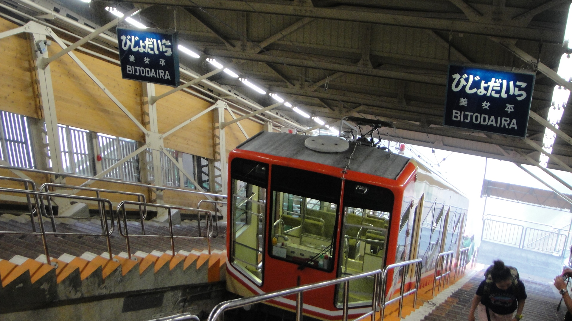 Bijodaira Station in Toyama, Japan